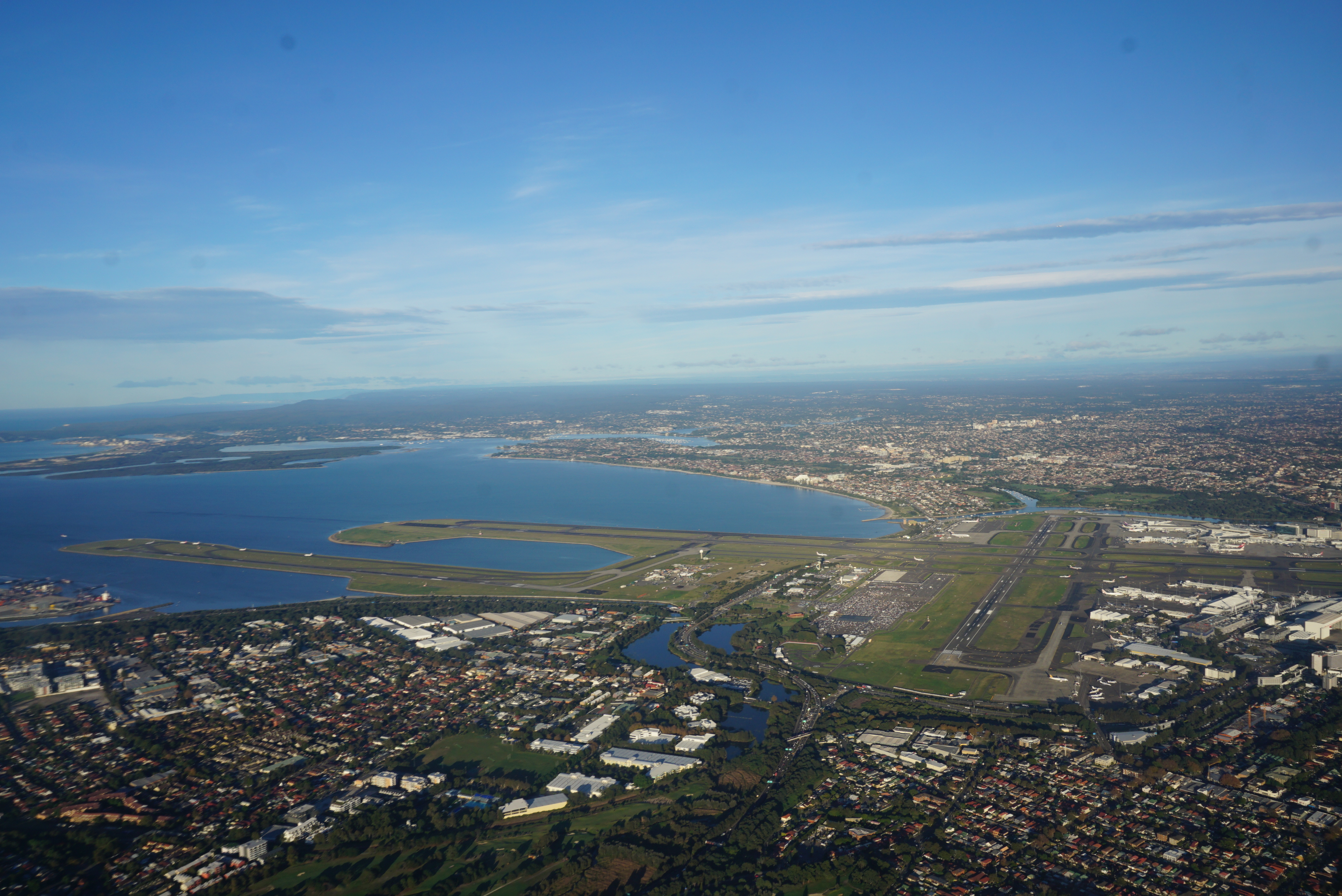 Sydney Airport from Above